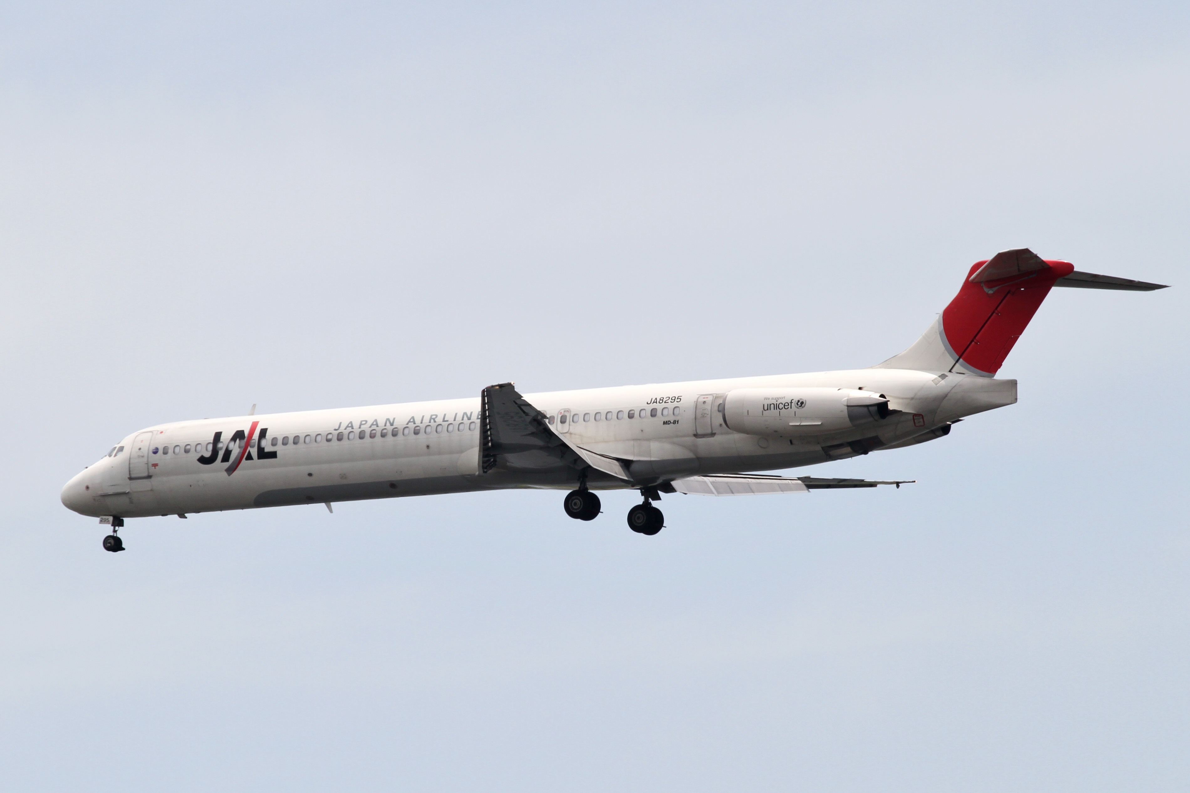 Tokyo International Airport, McDonnell Douglas MD-81, c/n:49821, Japan Airlines